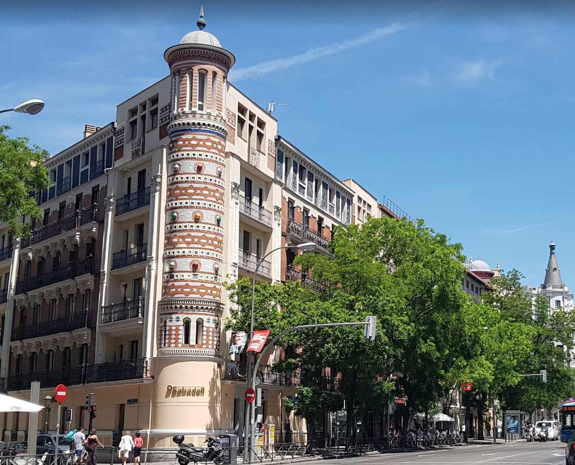 Alcalá 145